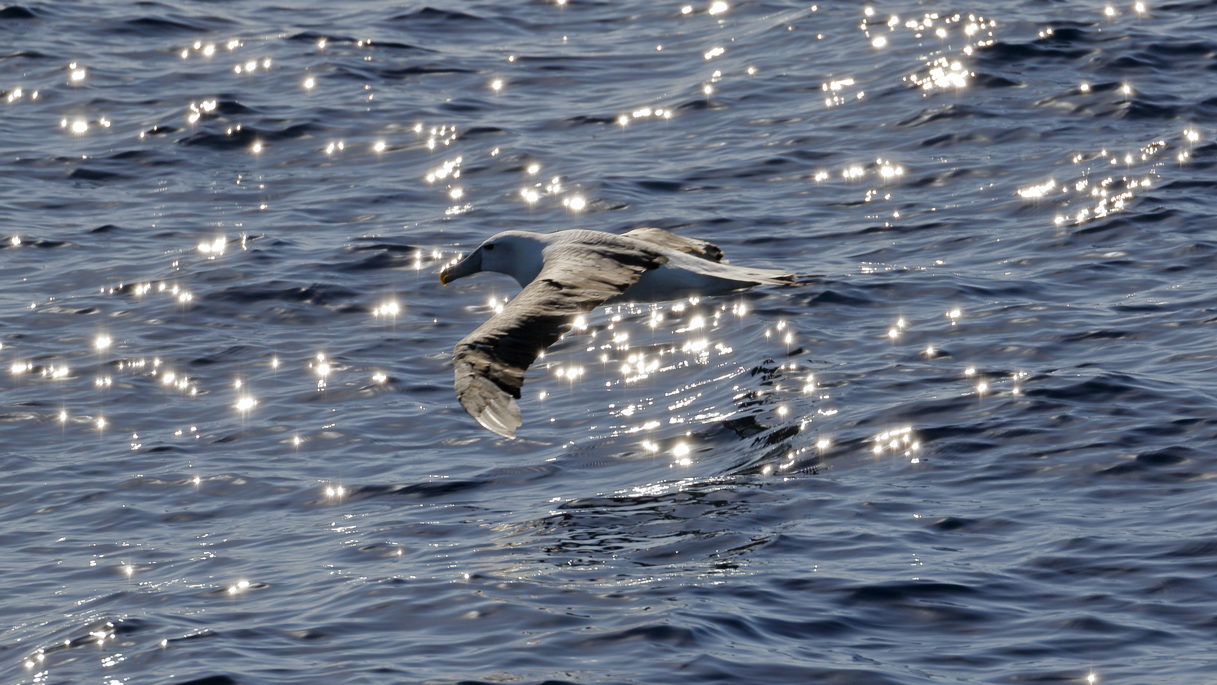 Port Fairy. Victoria.